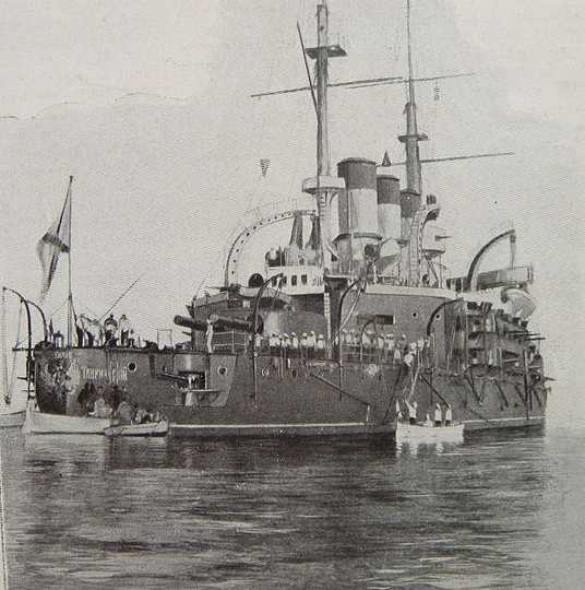 Bettleship Knyaz Potemkin-Tavrichesky at Constantza port in July 1905